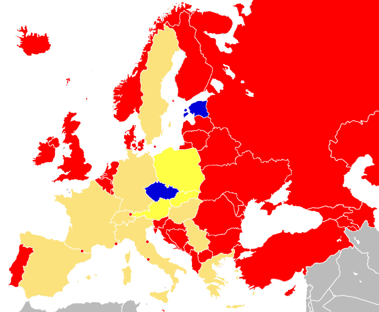 Concealed carry across Europe: shall-issue may-issue may-issue (hard to get) no-issue or no data Source: [2]